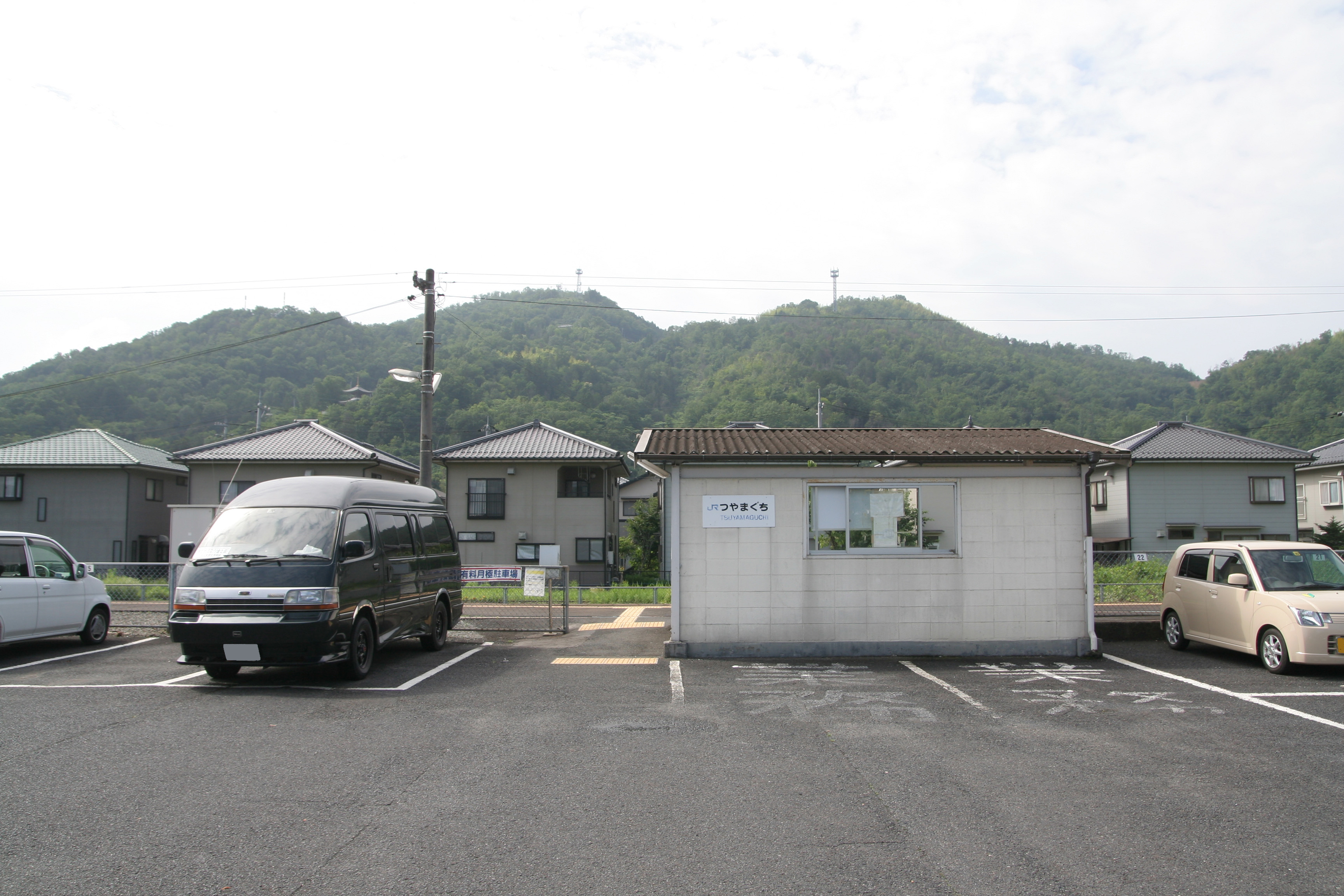 West Japan Railway Tsuyama Line Tsuyamaguchi station